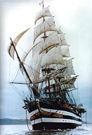 Amerigo Vespucci (public domain). Image copied from [1], a web site of the Italian Navy. Their copyright statement at [2] is in Italian. The relevant sentence is the first sentence in the last paragraph: Tutte le informazioni fornite su questo WEB sono considerate informazioni per il pubblico e possono essere distribuite o copiate. which means literally in